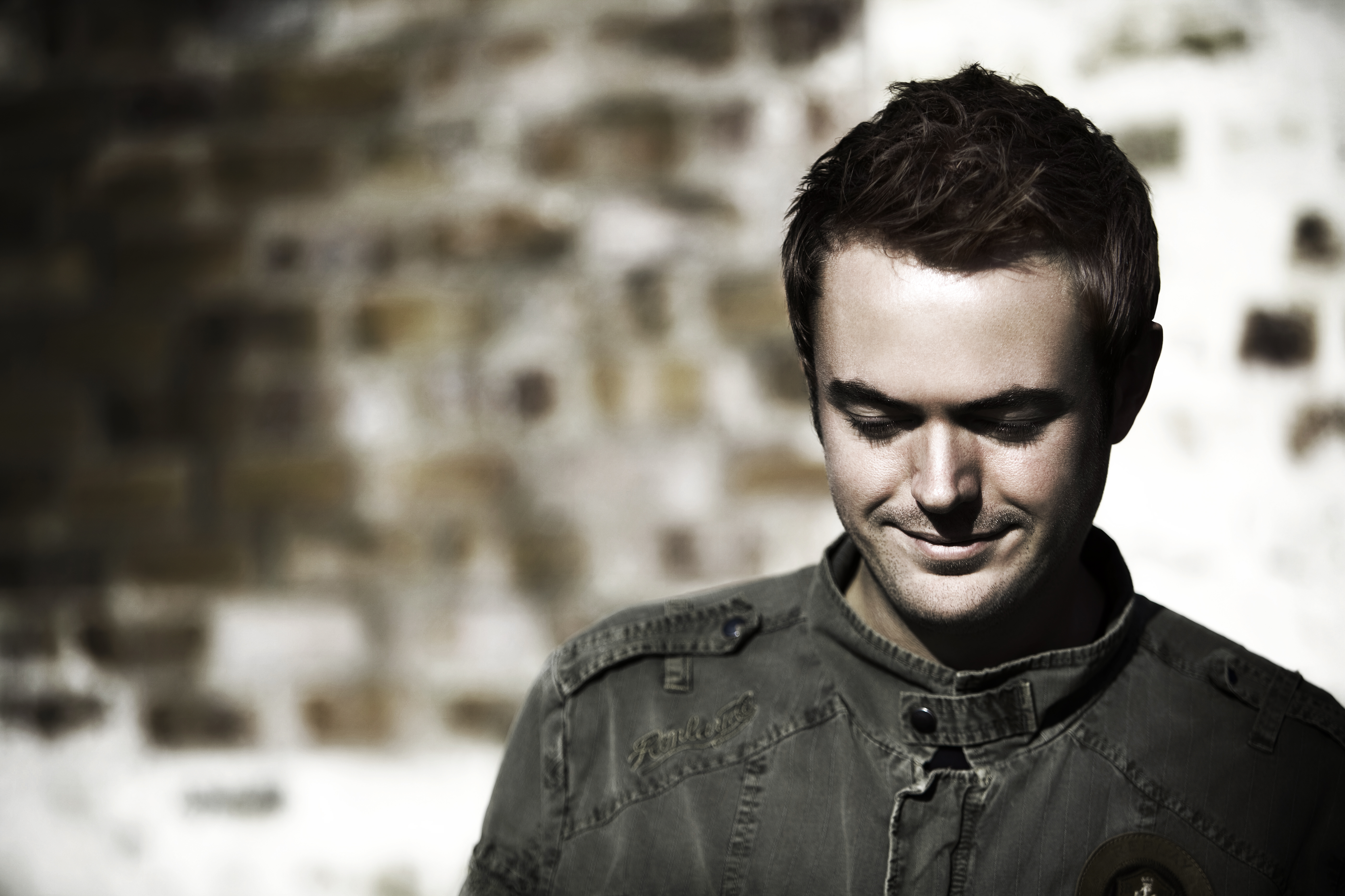 This photo of andy moor was shot for his Album release.